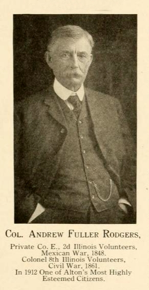 Col. Andrew Fuller Rodgers from Alton, Illinois: A graphic sketch of a picturesque and busy city. Saint Louis, Mo., and Alton, Ill.: J. A. Reid, 1912.